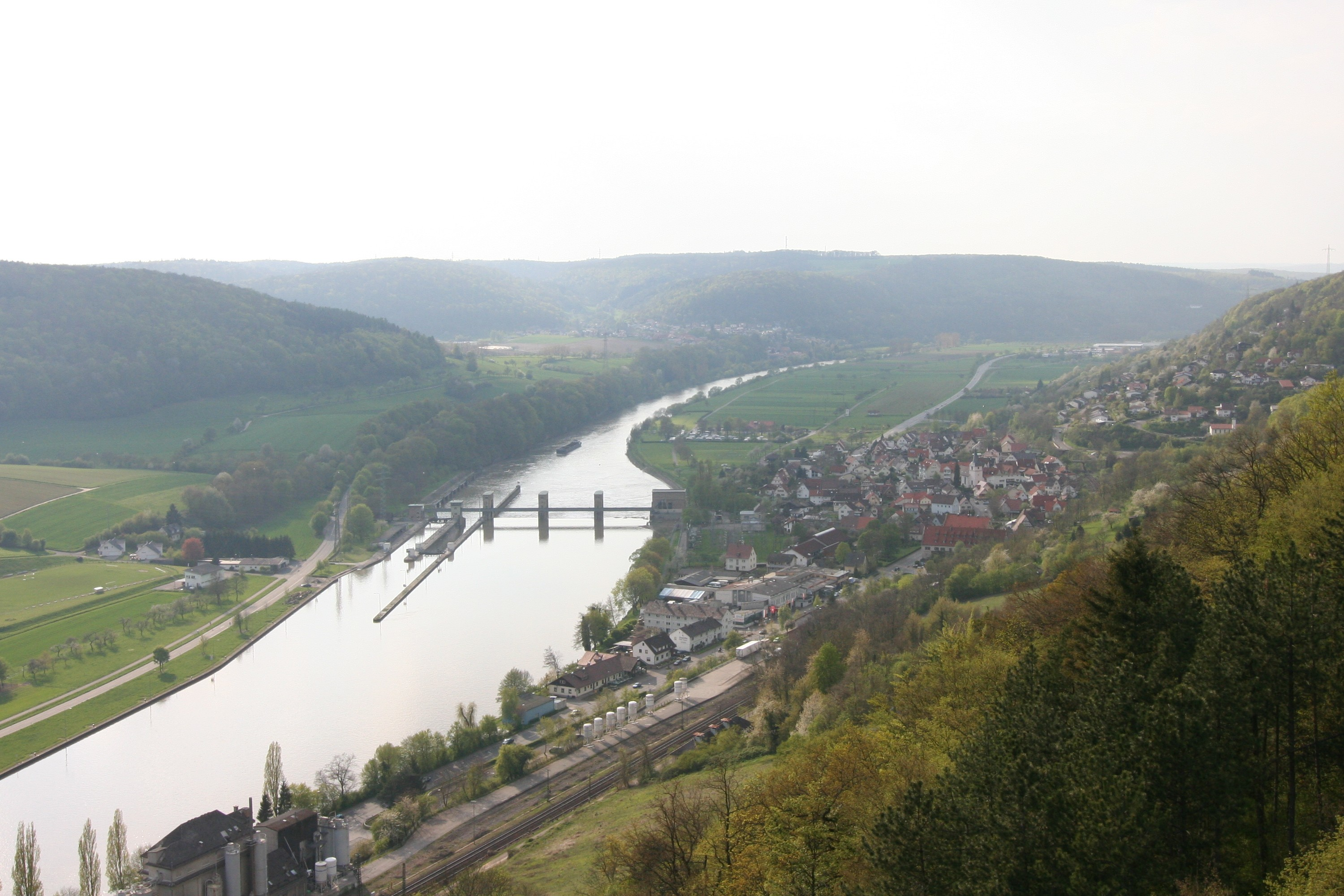 Neckarzimmern as seen from the donjon of Hornberg castle